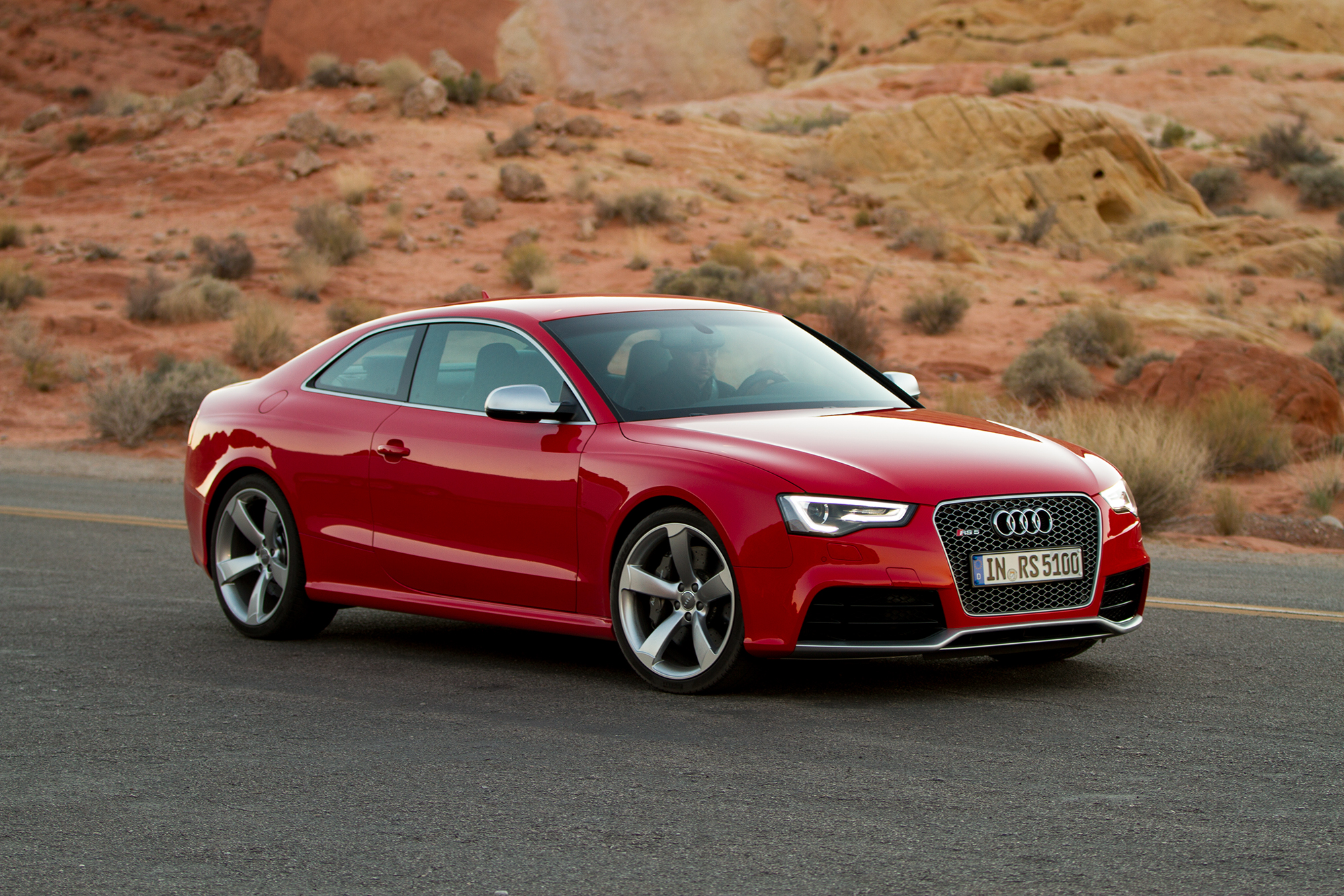 I went up to Elephant Rock in the Valley of Fire to capture the sunset. Unfortunately Audi was shooting a commercial and the state police had the path blocked off. As a matter of protest, I took a picture of their car. =P.